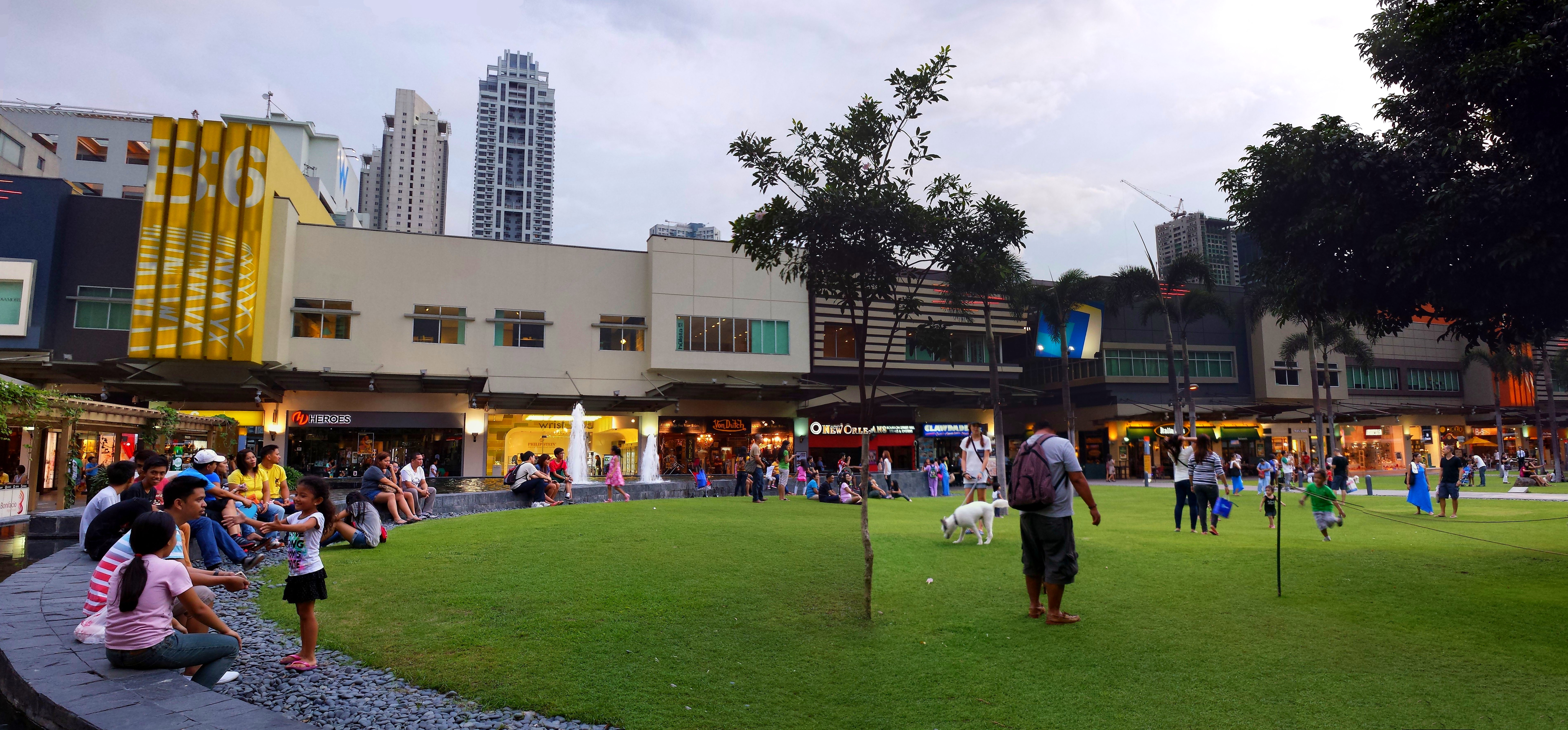 Part of the Bonifacio High Street in Fort Bonifacio Global City, Metro Manila, Philippines.